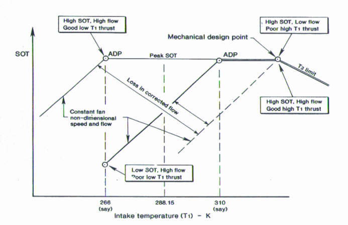 Typical Military Engine Rating System. SOT (turbine entry temperature) vs. intake temperature.